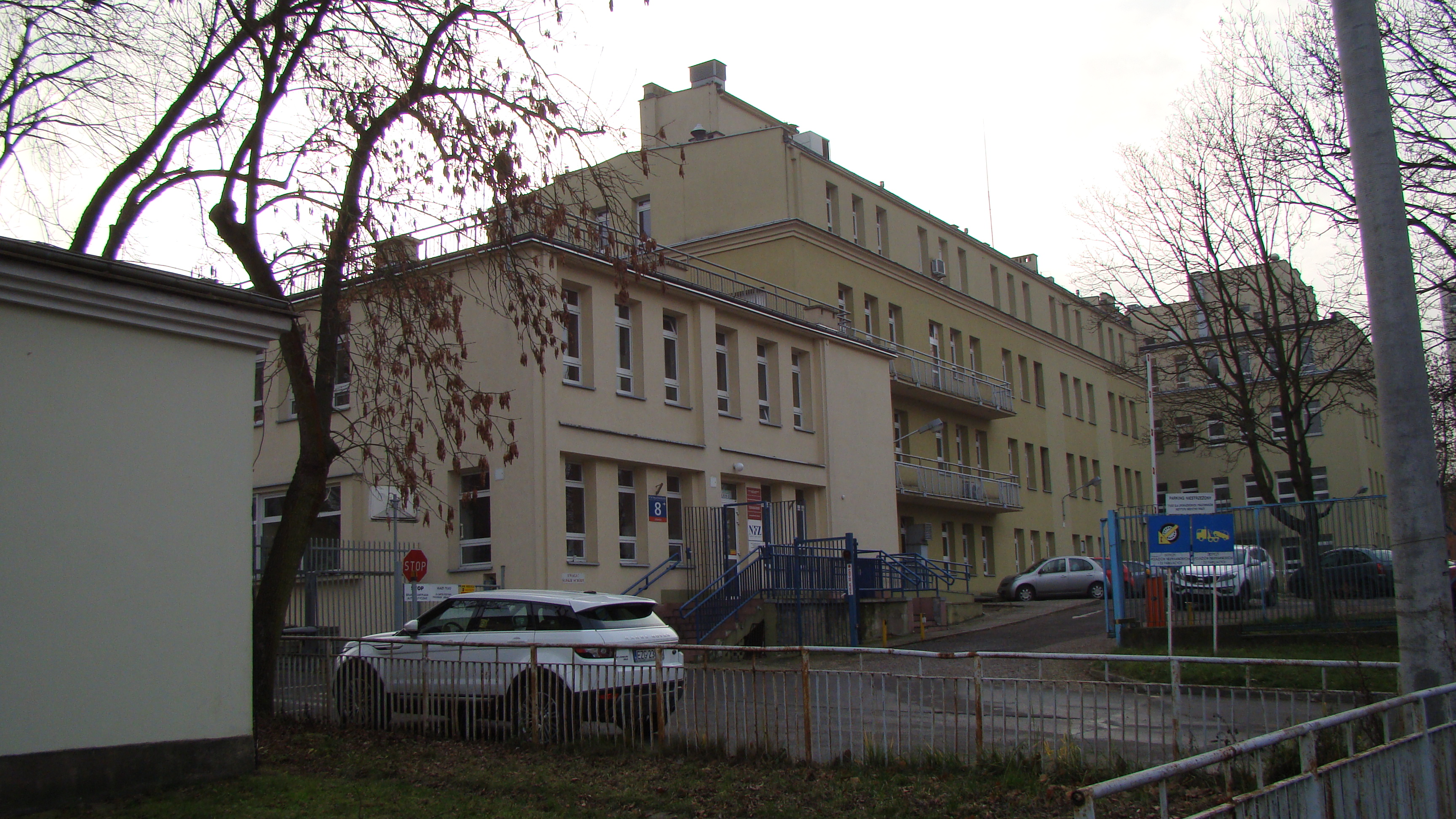 Nofer Institute